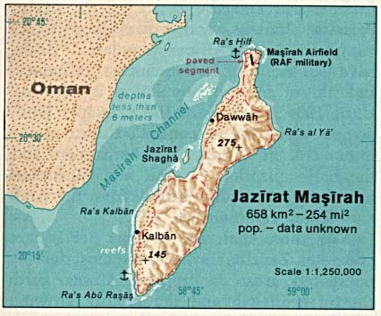 Map of Masirah Island (Oman) in the Indian Ocean